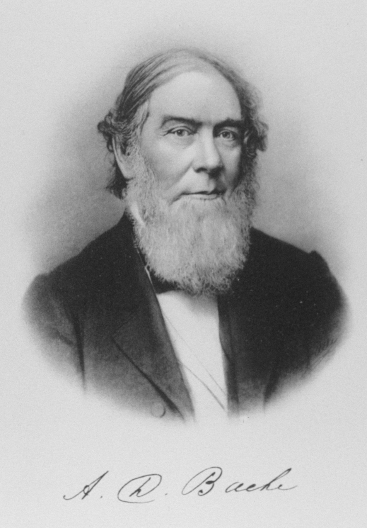 Alexander Dallas Bache, second Superintendent of the US Coast Survey, and first President of the National Academy of Sciences.